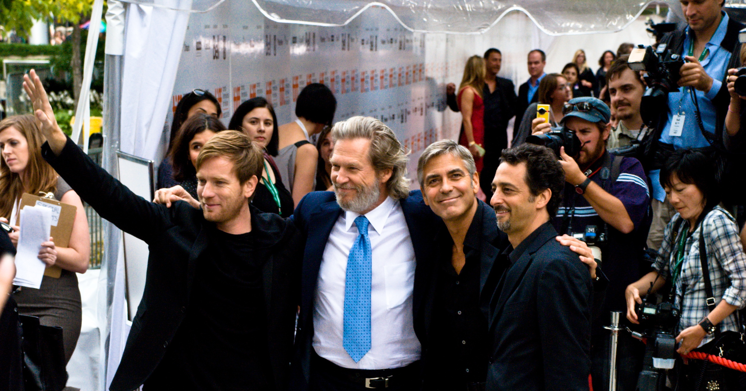 The Men Who Stare at Goats cast posing for camera shots at the 2009 Toronto International Film Festival.